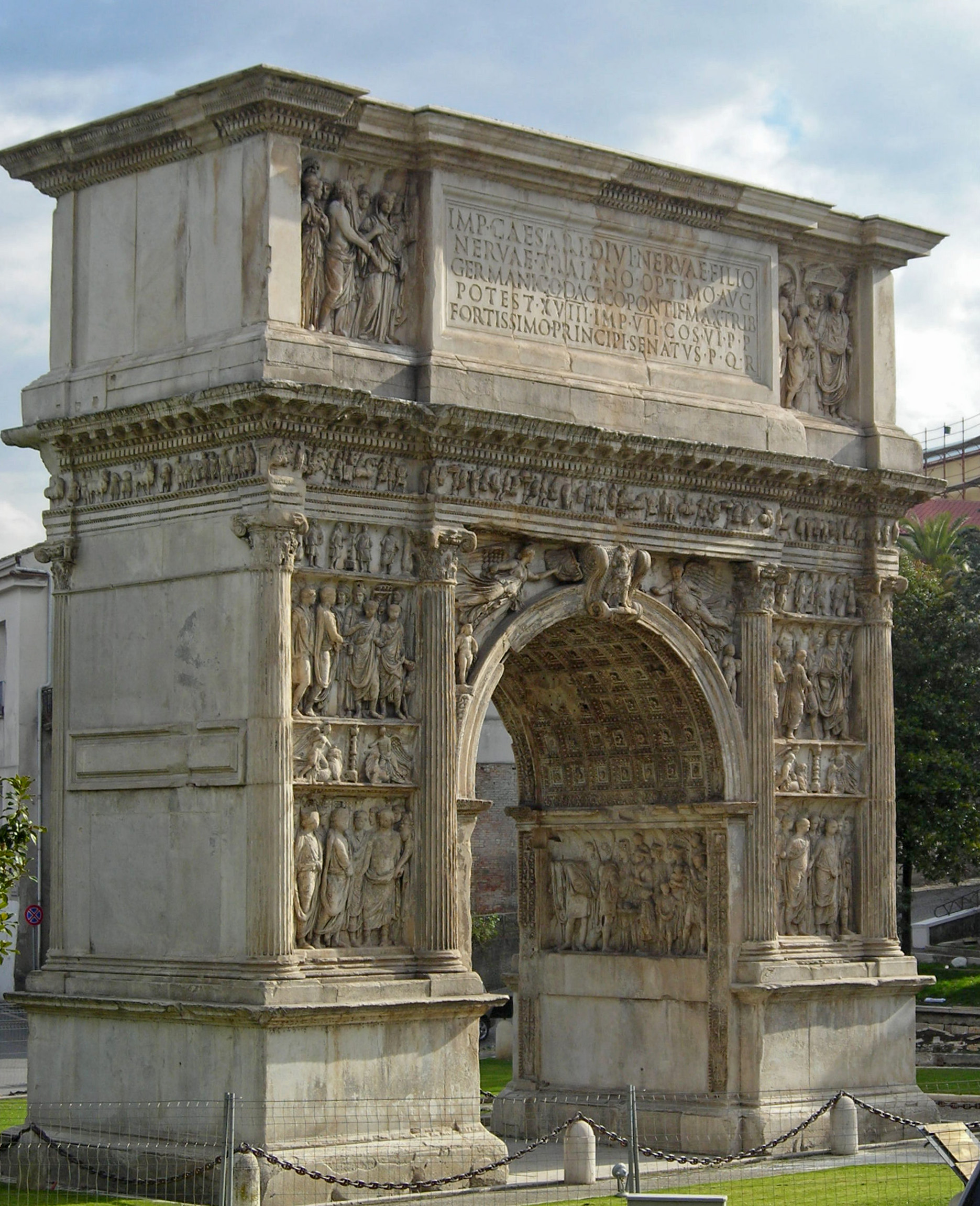 Arch of Trajan, Benevento, Italy: the side oriented towards the centre of the city. The inscription is catalogued as CIL IX 1558.